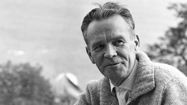 Norwegian composer Geirr Tveitt (1908-1981) outside his home